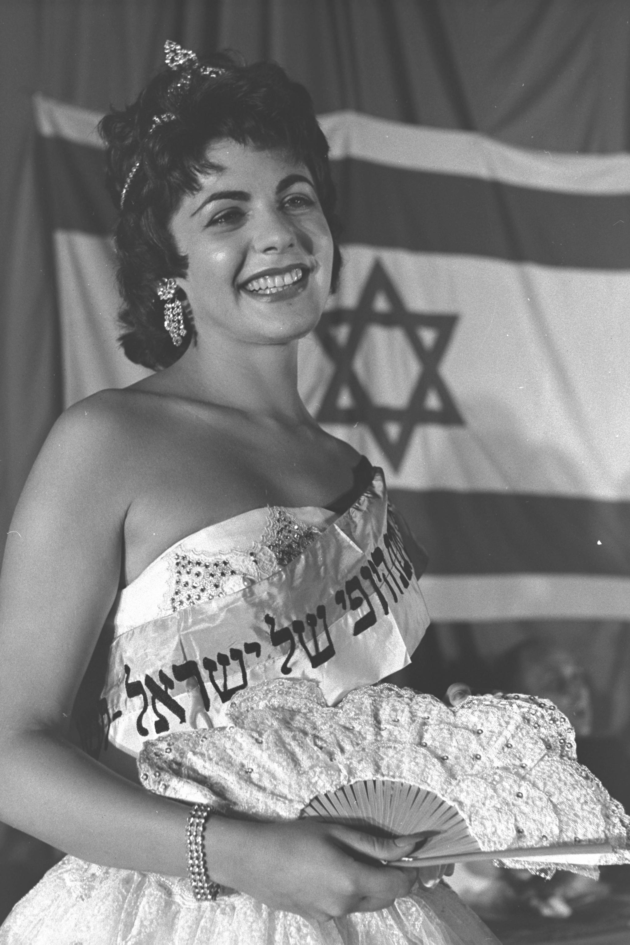 Sarah Tal